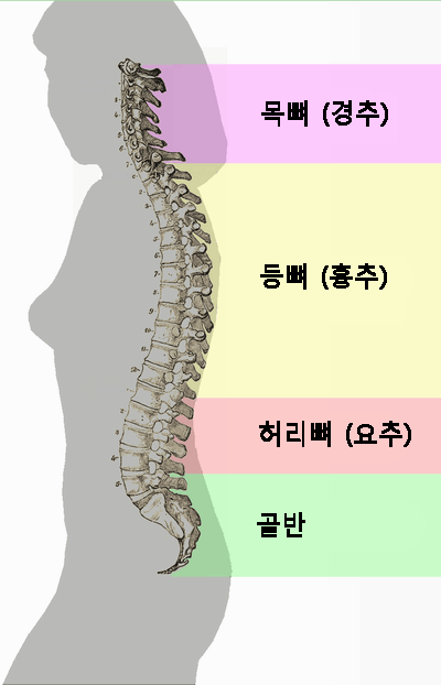 Labelled by Vsion, using another Public Domain image File:Gray 111 - Vertebral column.png, from Gray's Anatomy